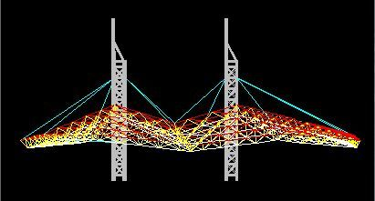 Curve spaceframe coverage